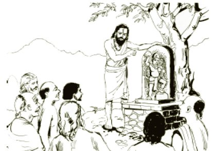 ramdas swami 123